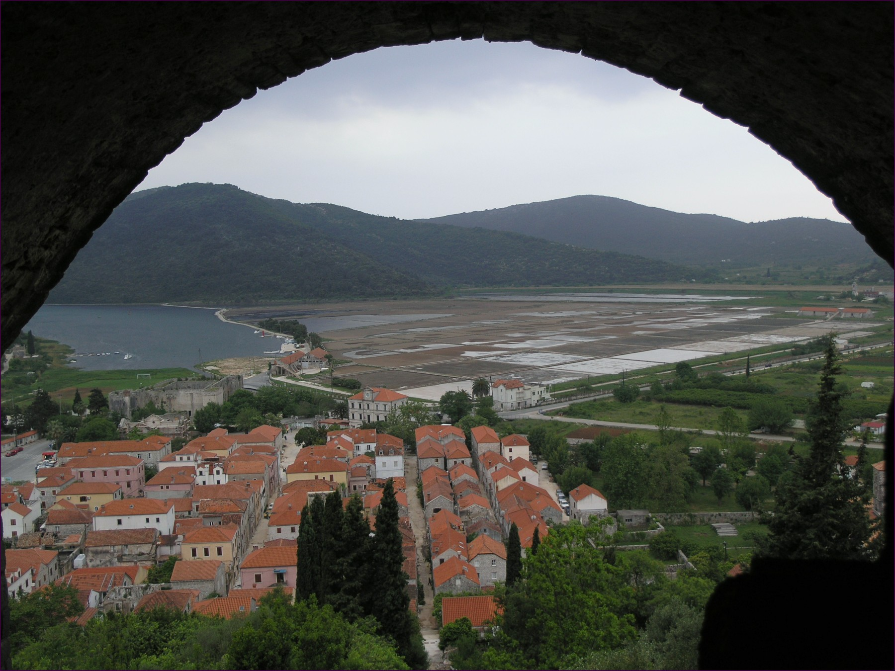 Croatia, Ston